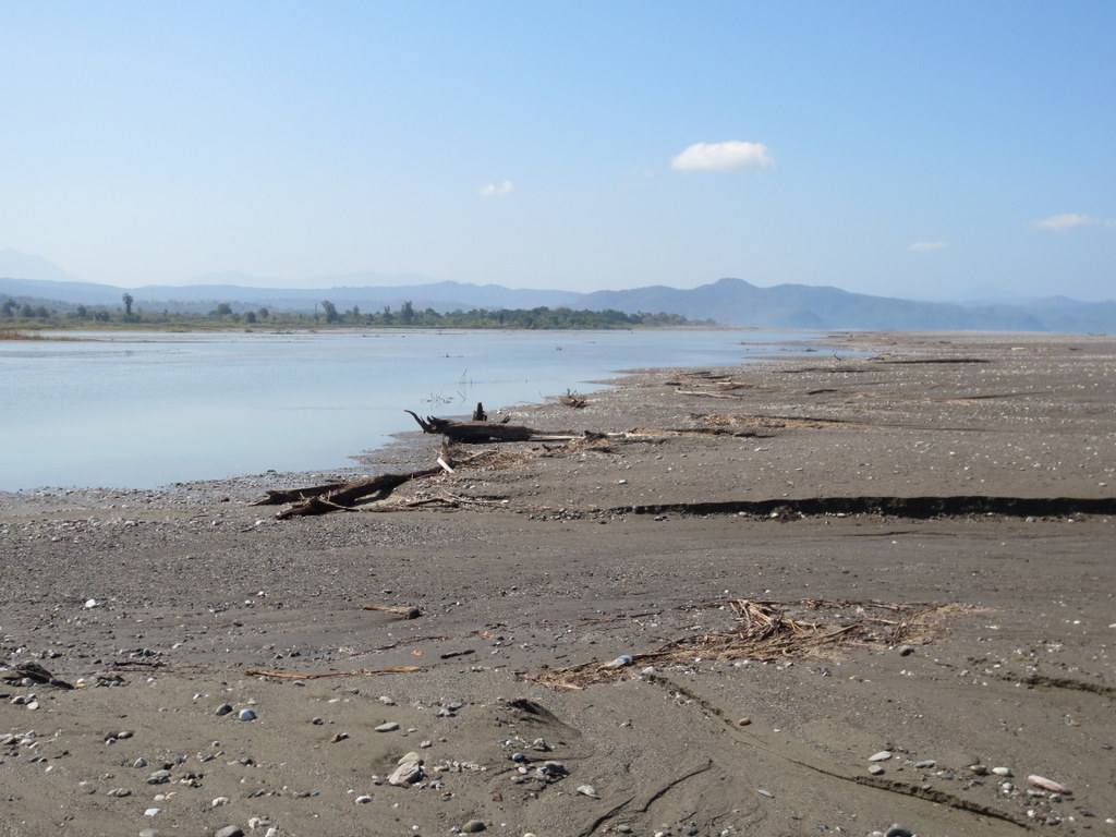 Loes river estuary view